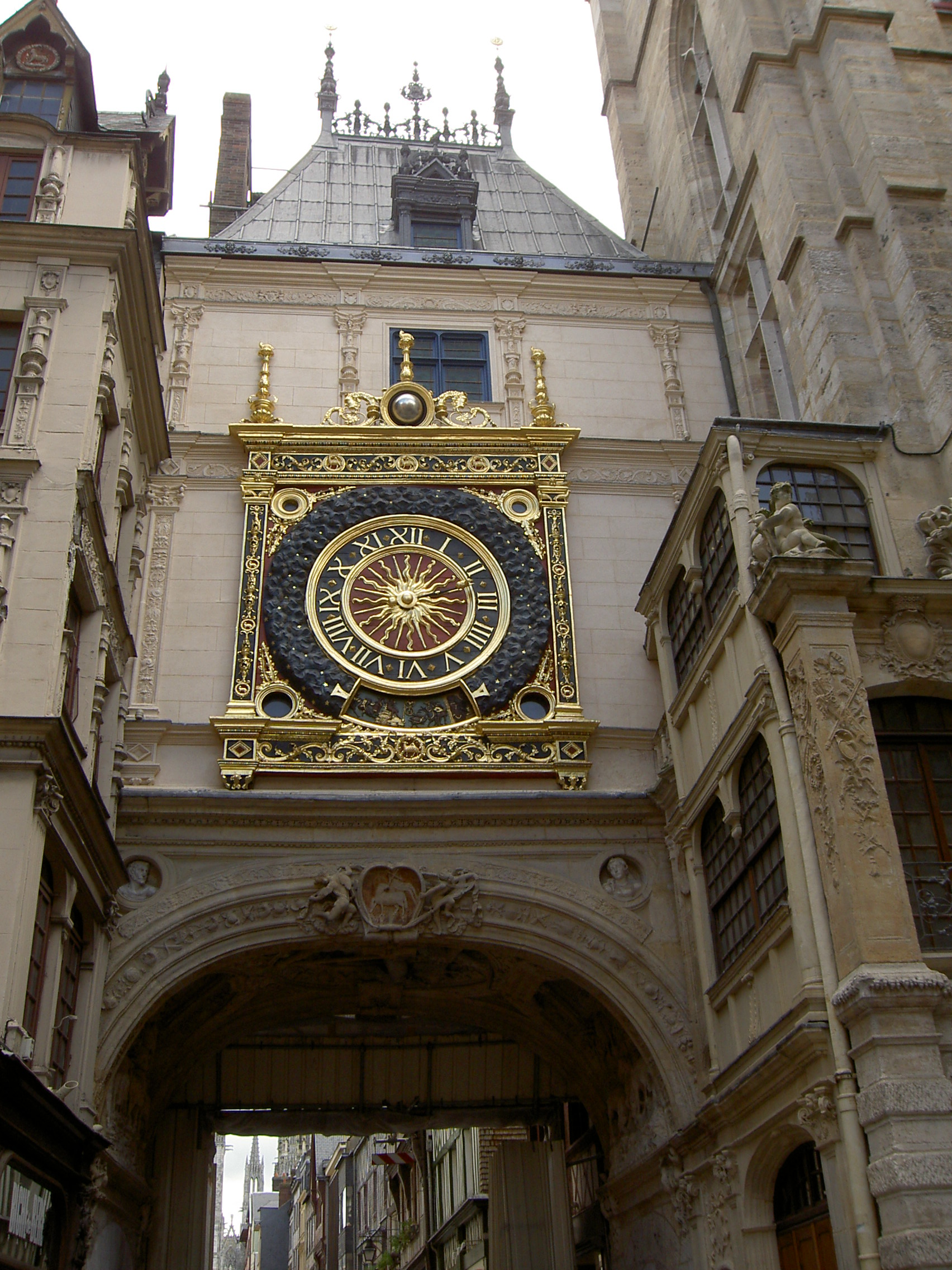 Le Gros Horloge, Rouen, Normandy, france clock tower